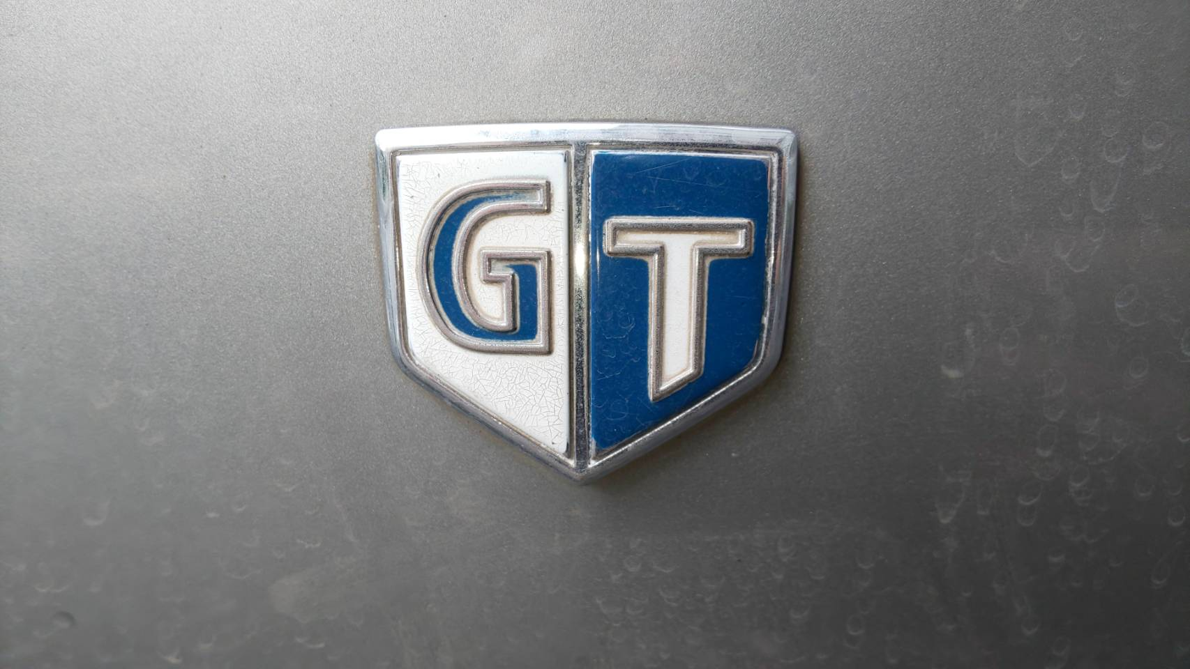 skyline ER34 GT